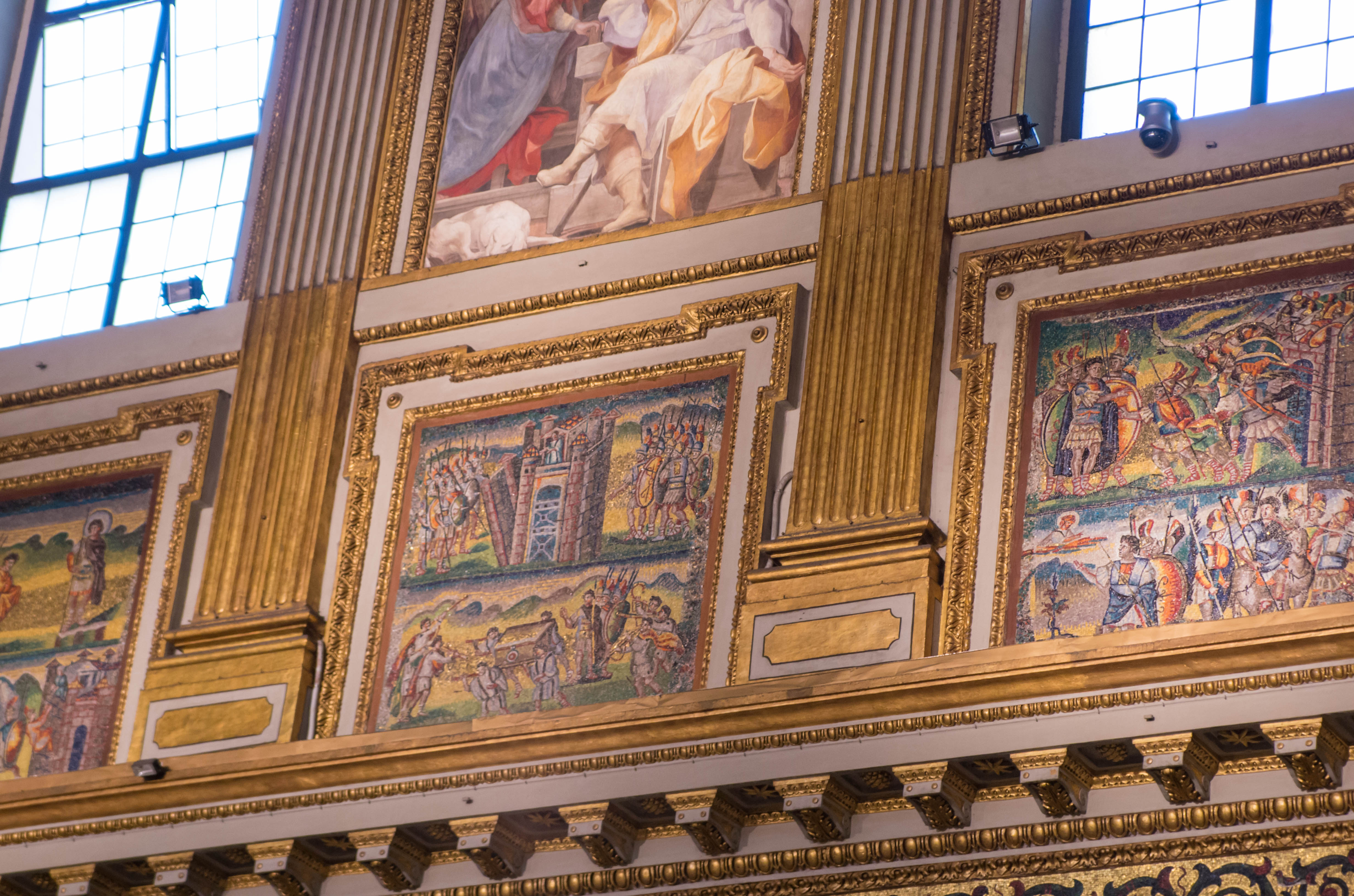 Interior of Santa Maria Maggiore (Rome)